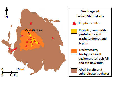 Geologic map of Level Mountain showing volcanic products and eruptive centres.